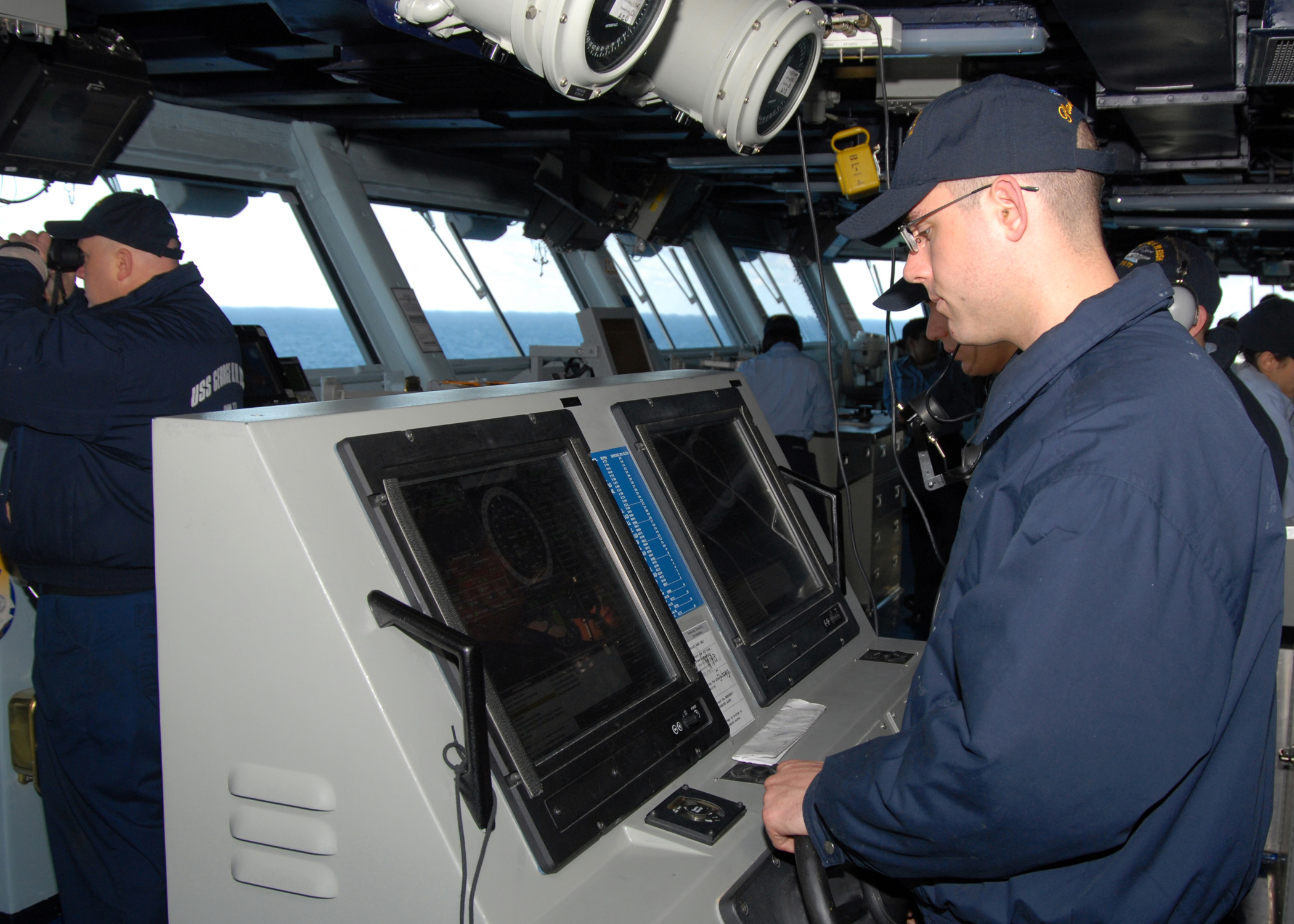 ATLANTIC OCEAN (Feb. 15, 2009) Sailors stand lee helm and helmsman watch aboard the aircraft carrier USS George H.W. Bush (CVN 77) to navigate the ship through the Atlantic. George H.W. Bush is conducting builder's sea trials. (U.S. Navy photo by Mass Communication Specialist 3rd Class Kyle P. Malloy/Released)